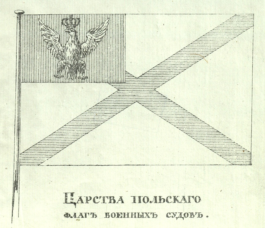 Naval Ensign of Congress Poland, 1815 - 1833